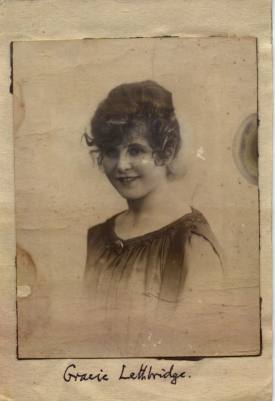 Photo of Grace Marguerite Hay Drummond-Hay Picture taken by Sydney Thomas Lethbridge Died: 15-Oct-1925